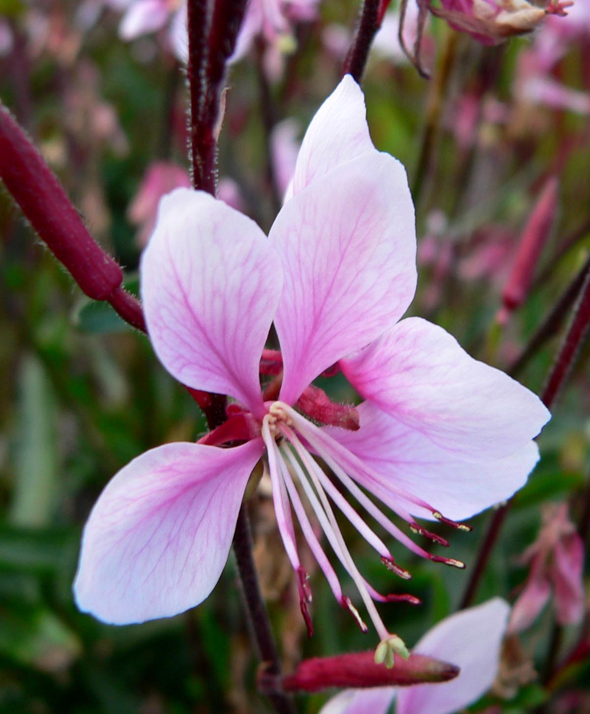 Photo of Gaura lindheimeri 'Cherry Brandy' at the VanDusen Botanical Garden in Vancouver